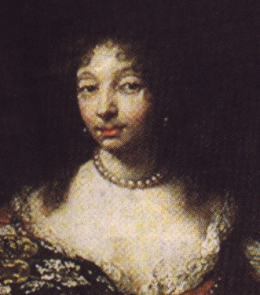 Adriana Sophia van Raesfelt, lady of Twickel